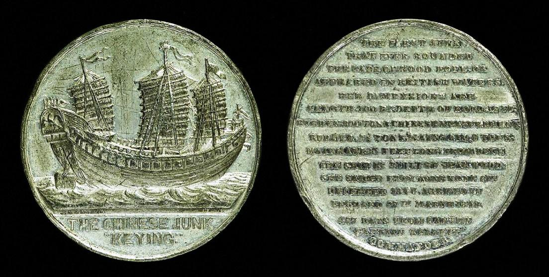 Commemorative medal of Junk Keying.